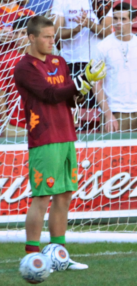 Roma players before the game between Liverpool and AS Roma at Fenway Park, 25 July 2012.